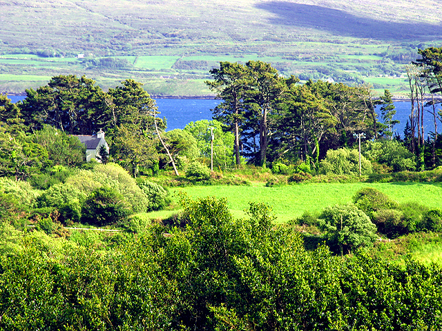 Farm near Ahakista. This farm is on the southern most minor road on the OSI Map. The view was taken from the stone circle north west of the farm.